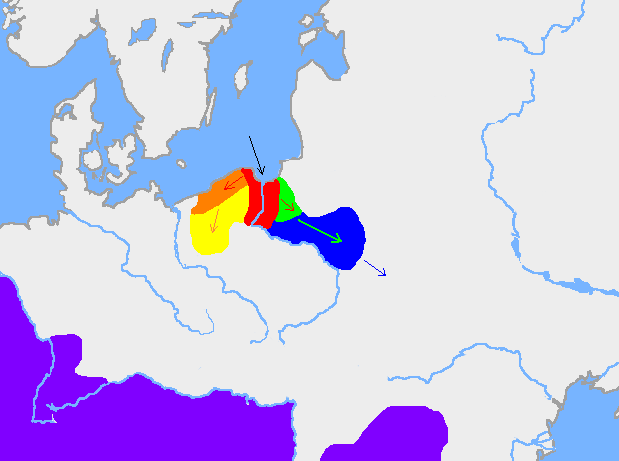 The different colours show the expansion of the Gothic Wielbark culture. The purple area is the Roman Empire. Based on Dbachmann's blank map.